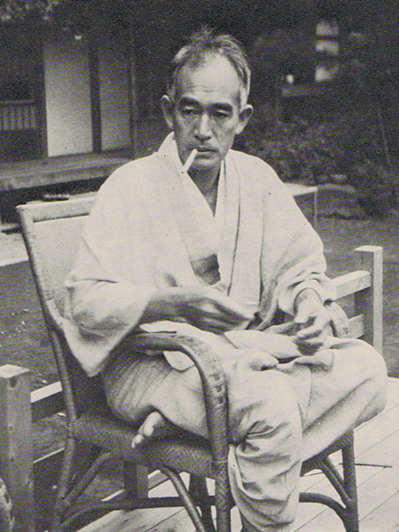 Naoya Shiga at his Tokyo home, September 1938.